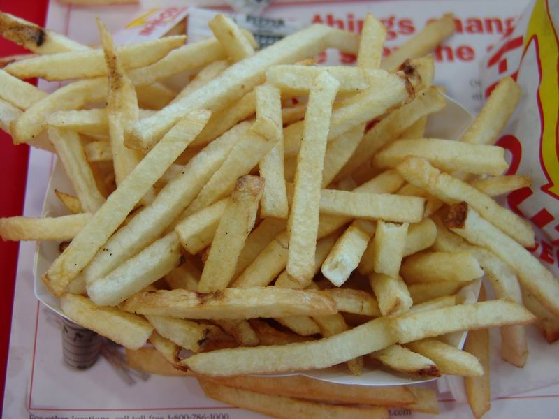 Fresh Cut French Fries @ In-N-Out Burger - Las Vegas (2006-10-17)